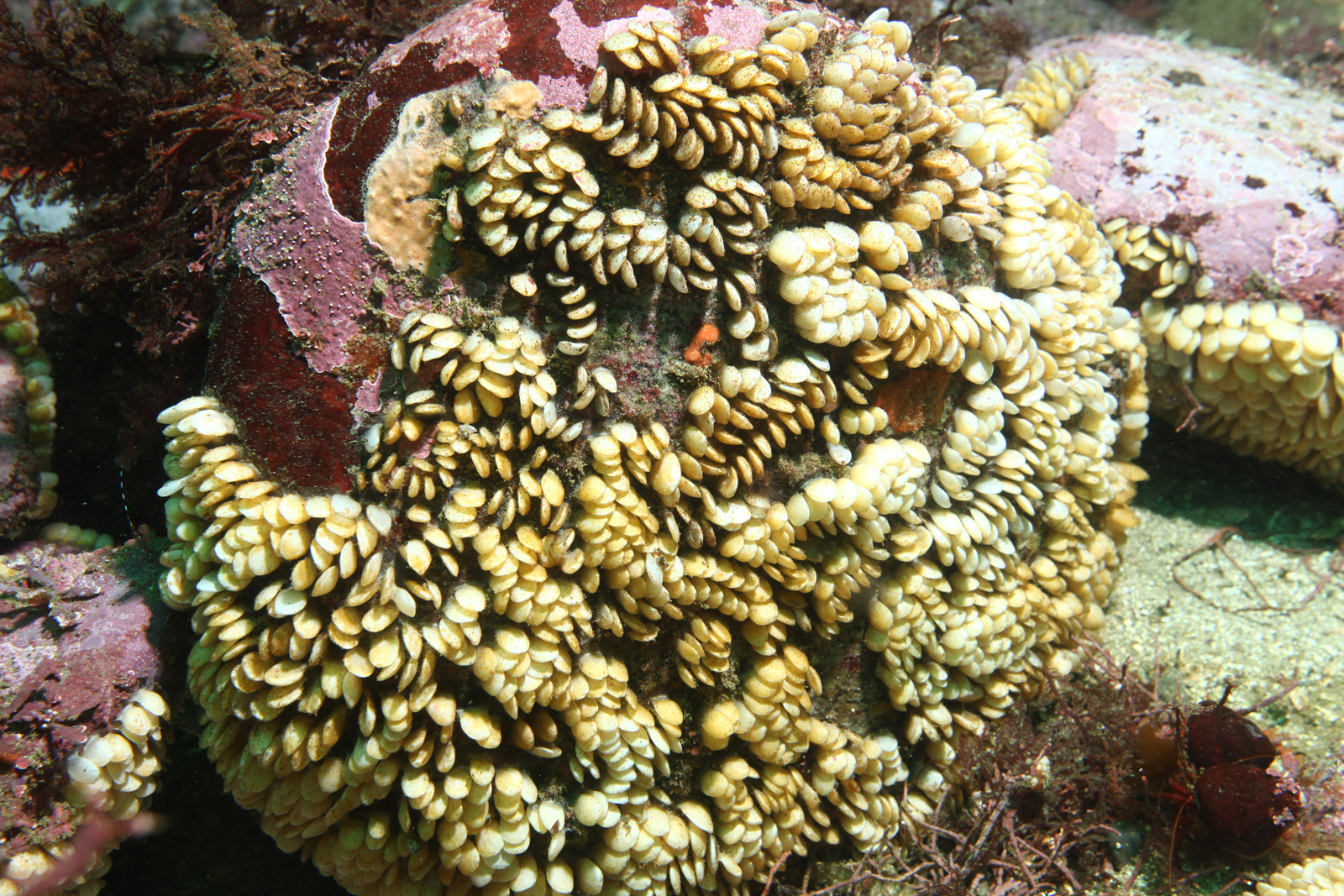 Photo of eggs of Kelletia kelletii. Hundreds of egg cases from the Kellet's whelk (Kelletia kelletii) cover rocks near Pebble Beach. Location (General): Pebble Beach. Site (Specific): Fire Rock.